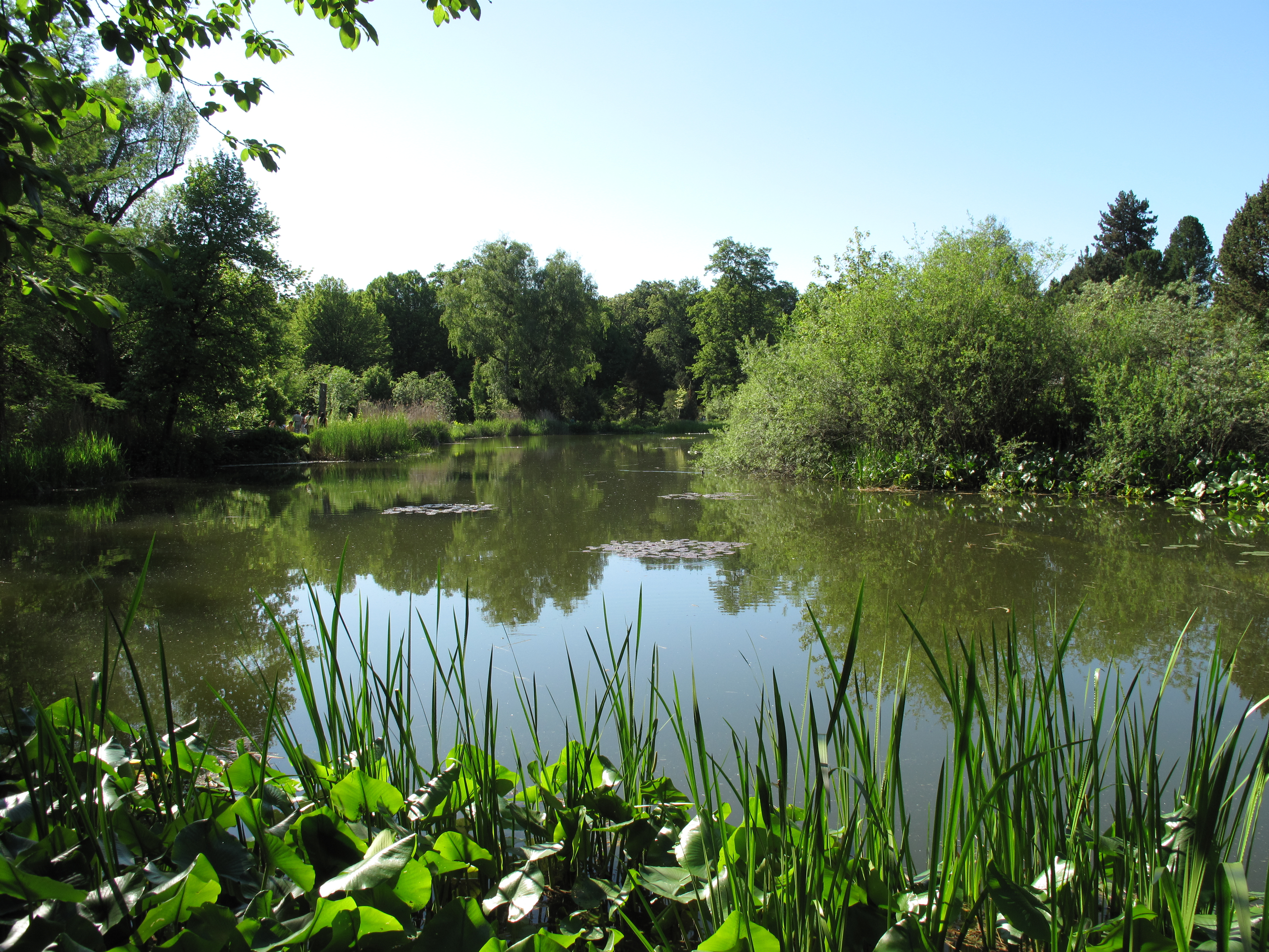 Botanic Garden Munich (Nymphenburg), Lake